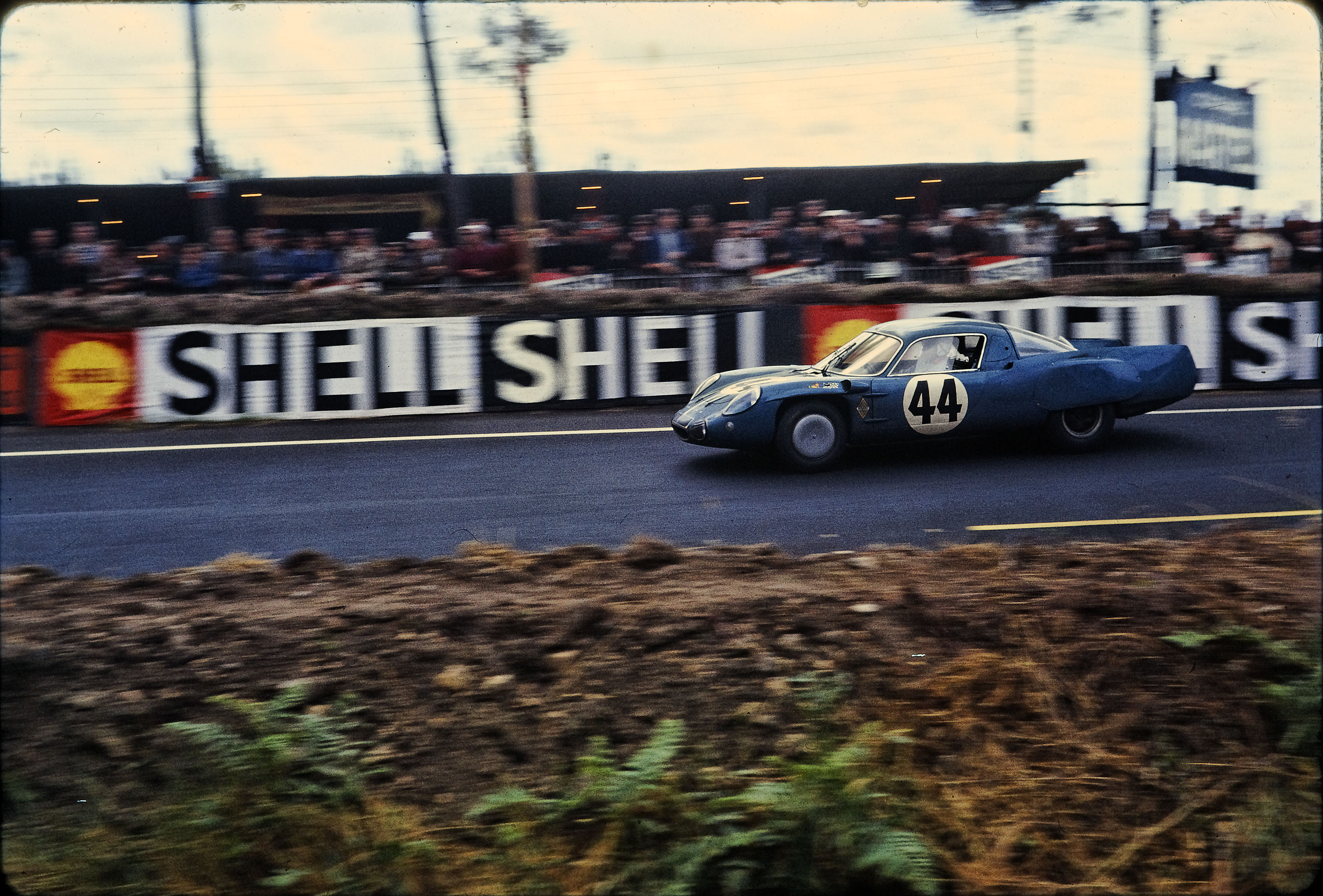 1966 24 Hours of Le Mans.